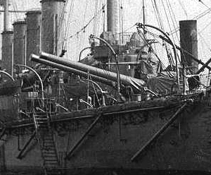 Photograph showing aft BL 9.2 inch Mk XI guns of British armoured cruiser HMS Defence trained to port. This is a clip from Image:HMS Defence 1907.jpg.